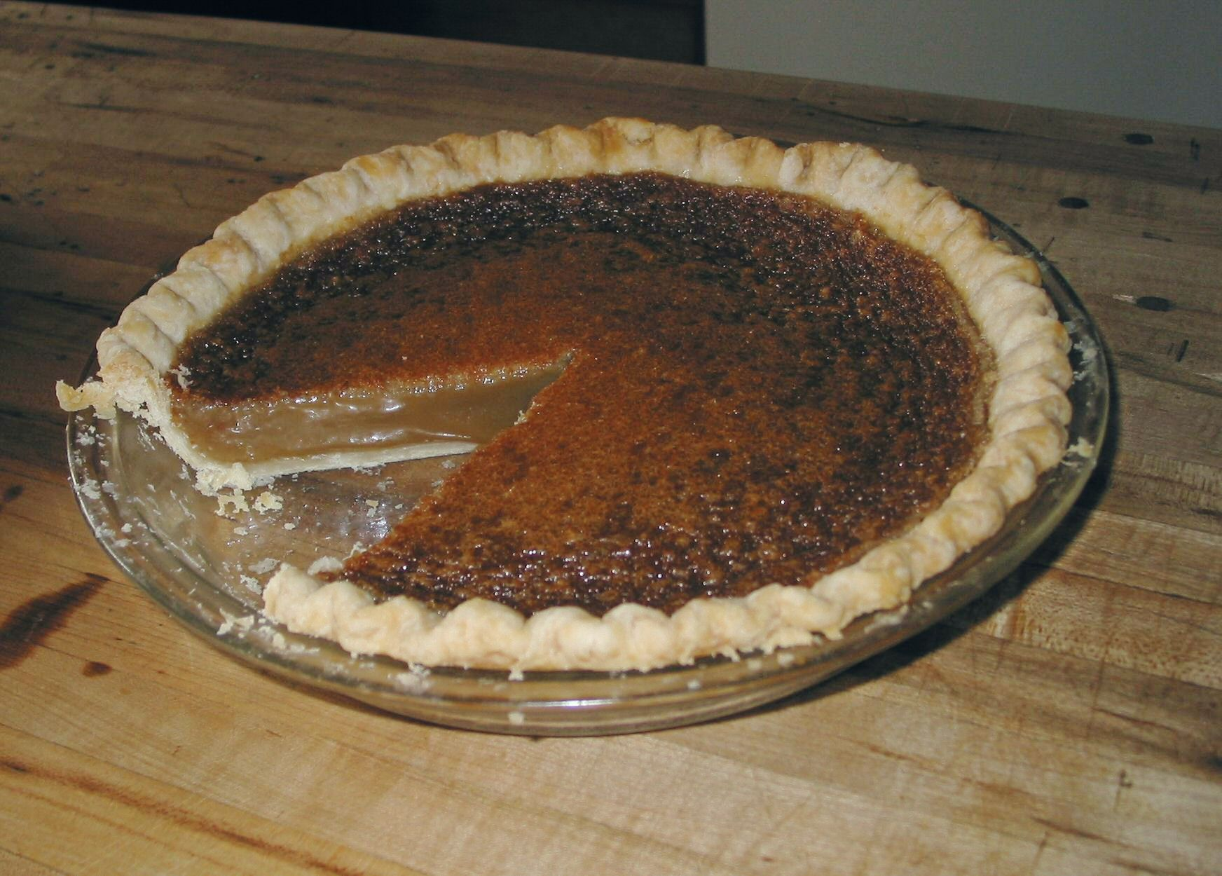 Maple Syrup Pie, Falmouth, Maine, USA.